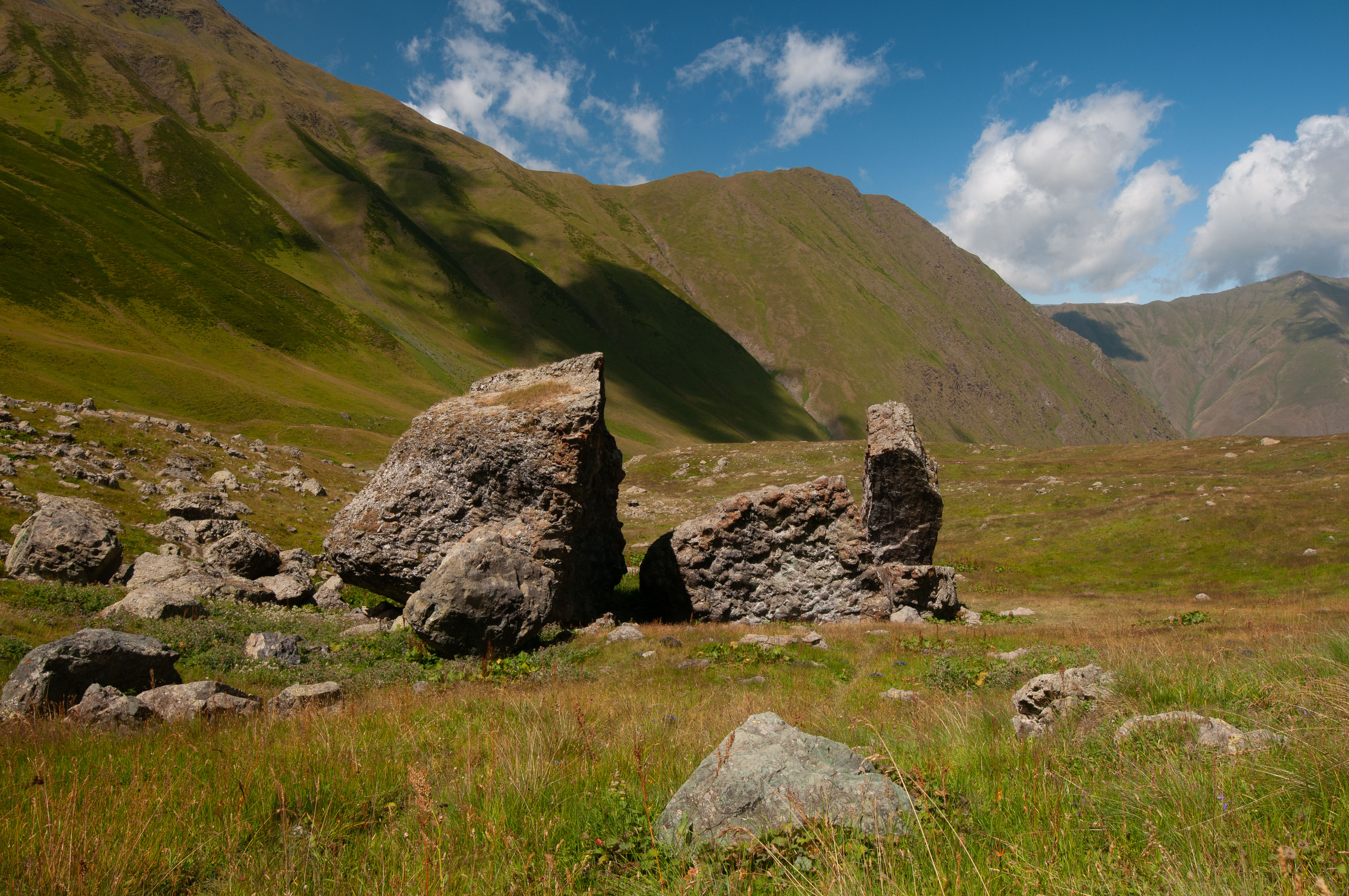 Chaukhebi Mount in Juta valley, Kazbegi National Park